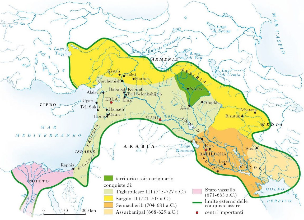 Neo-Assyrian Empire.